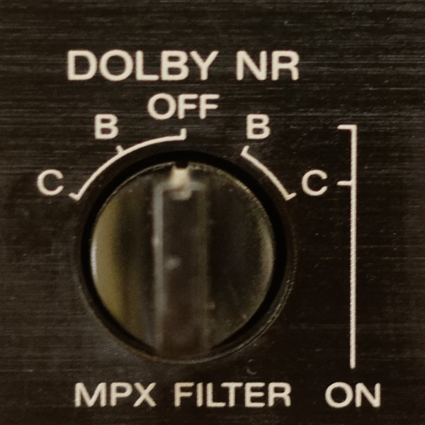 MPX and Dolby switch of the Sony ES cassette deck (model 333ESG, Japanese market).